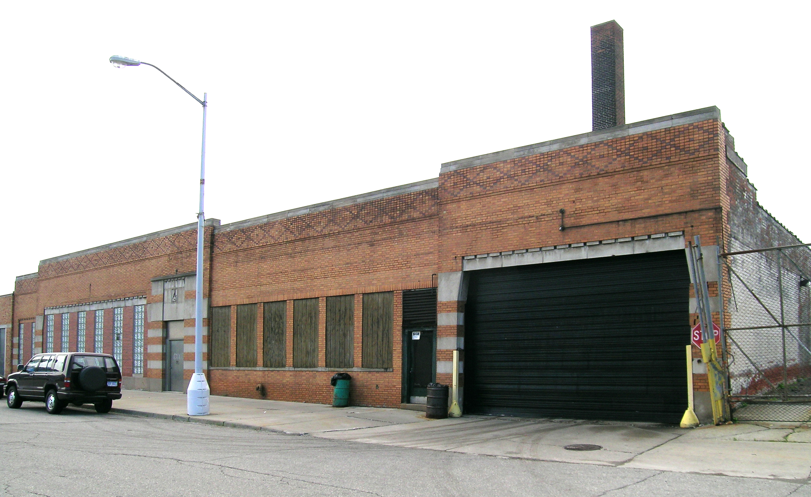 The Autocar Service Building, at the corner of Piquette Avenue and Brush Street in Detroit, Michigan, United States, lies within the Piquette Avenue Industrial Historic District.